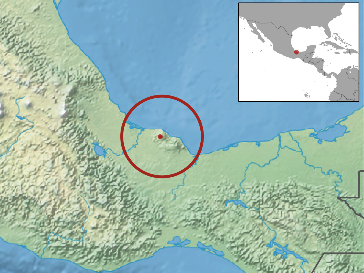 Geographic distribution of Cryptotis nelsoni